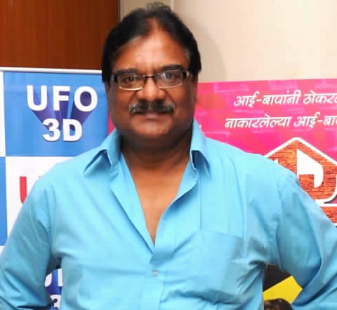 Deepak Shirke at audio release of Marathi film 'Kuni Ghar Deta Ka Ghar'